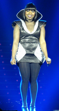 Misha B, British rapper and singer, on The X Factor Live Tour.